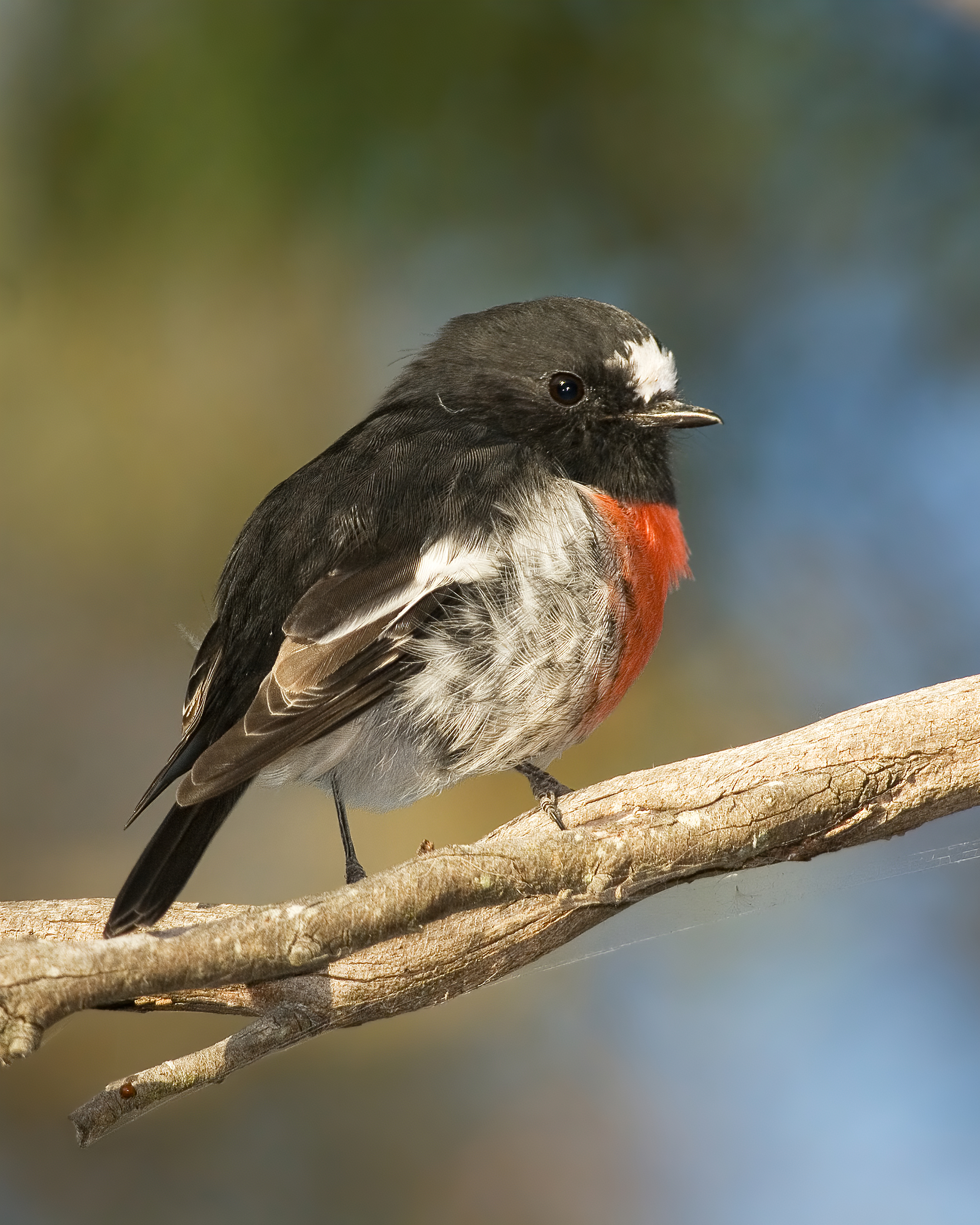 Male Scarlet Robin (Petroica boodang) in the Meehan Range, Tasmania, Australia.